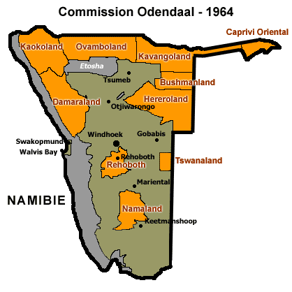 This map in French shows the Odendaal Commission Plan for Namibia of 1964. The plan divided Namibia into Bantustans or Homelands.